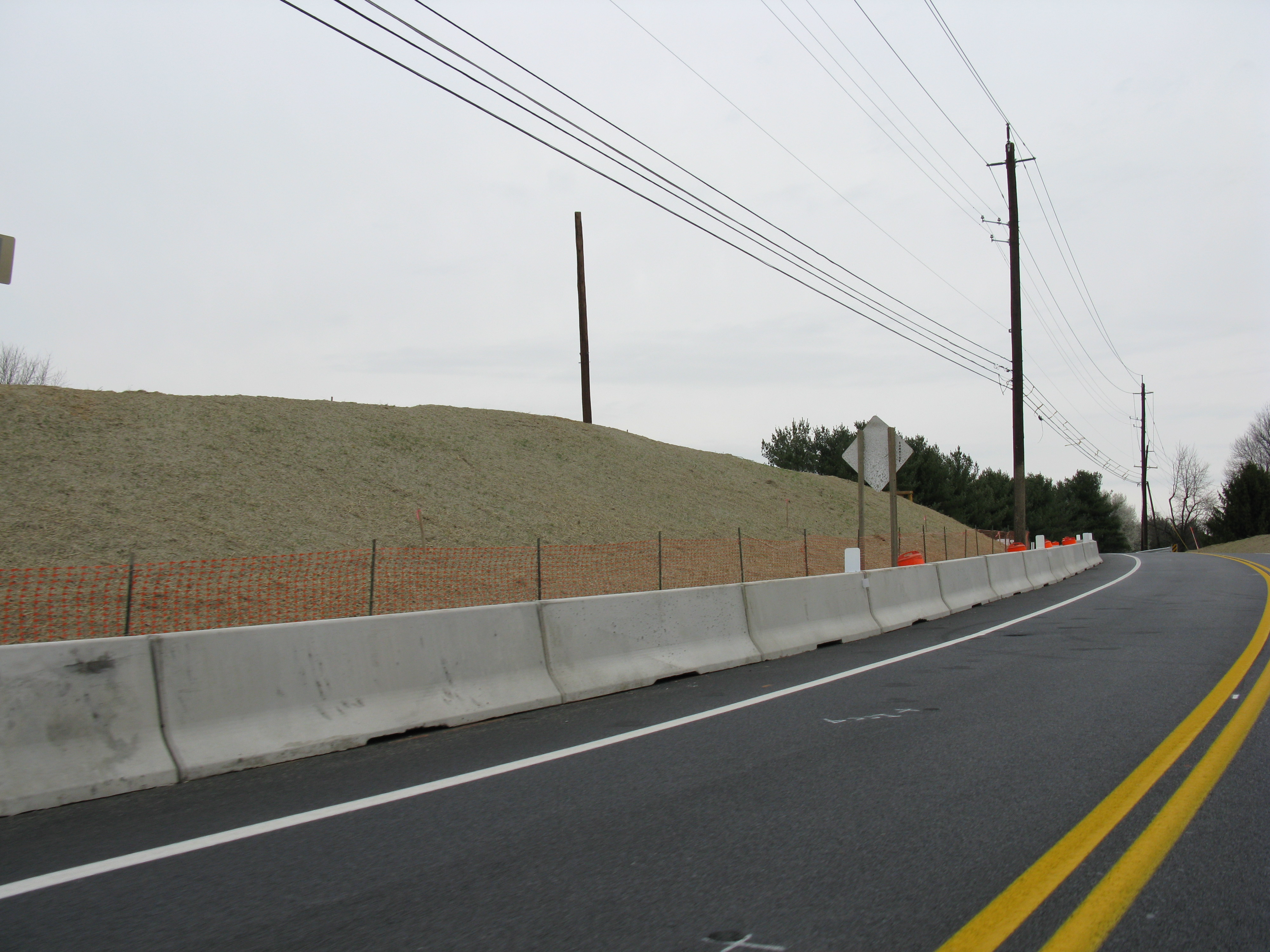 The construction of the future Maryland Route 200, popularly referred to as the Intercounty Connector at its future bridge over Redland Road in Redland, MD, USA.